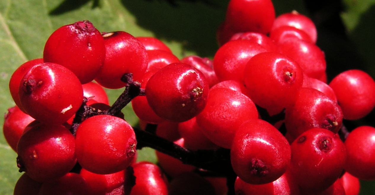 Ripe fruits of Red Elderberry. Moscow region, Russia.